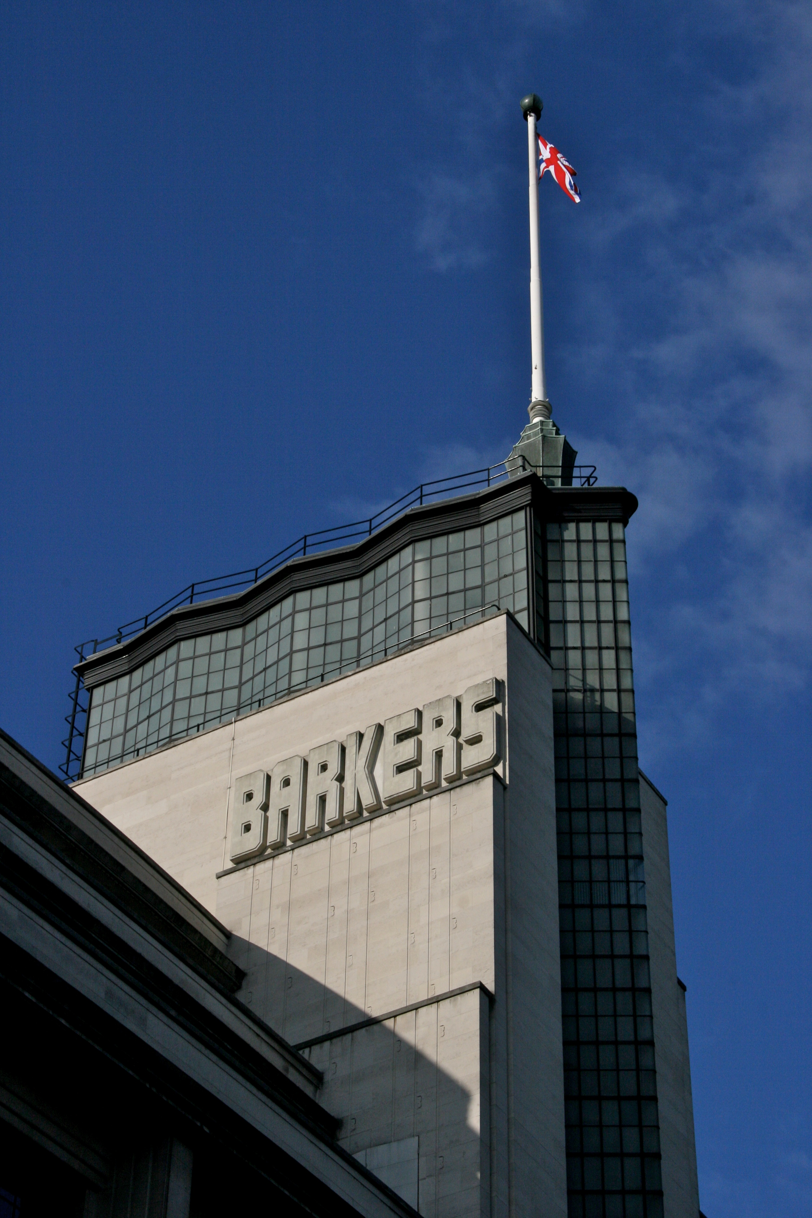 The former Barkers building on Kensington High Street in London.